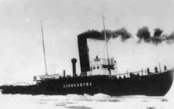 Icebreaker Hindenburg. It was sunk by a mine on March 12, 1918.